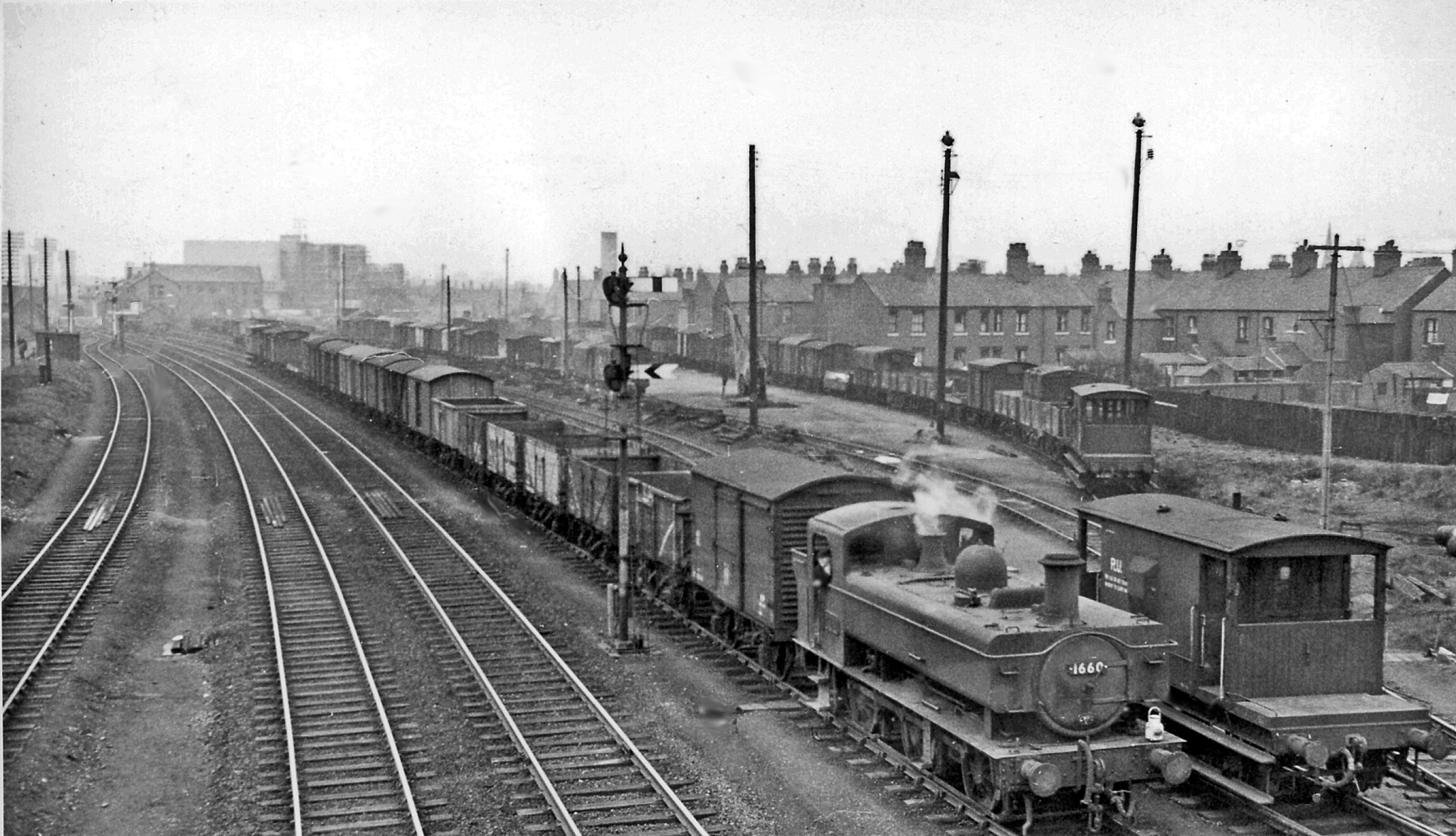 Up local freight near Croes Newydd Junctions, Wrexham. View northwards, towards Wrexham (Exchange) and Chester; ex-GW Birmingham - Shrewsbury - Chester main line. The Yards and Depot at Croes Newydd dealt with the traffic off the several industrial and colliery branches near Wrexham. Here 'modern' GW '1600' class 0-6-0T No. 1660 (built 2/55, withdrawn 2/66) brings a goods along the Up Goods line at Croes Newydd South Junction.